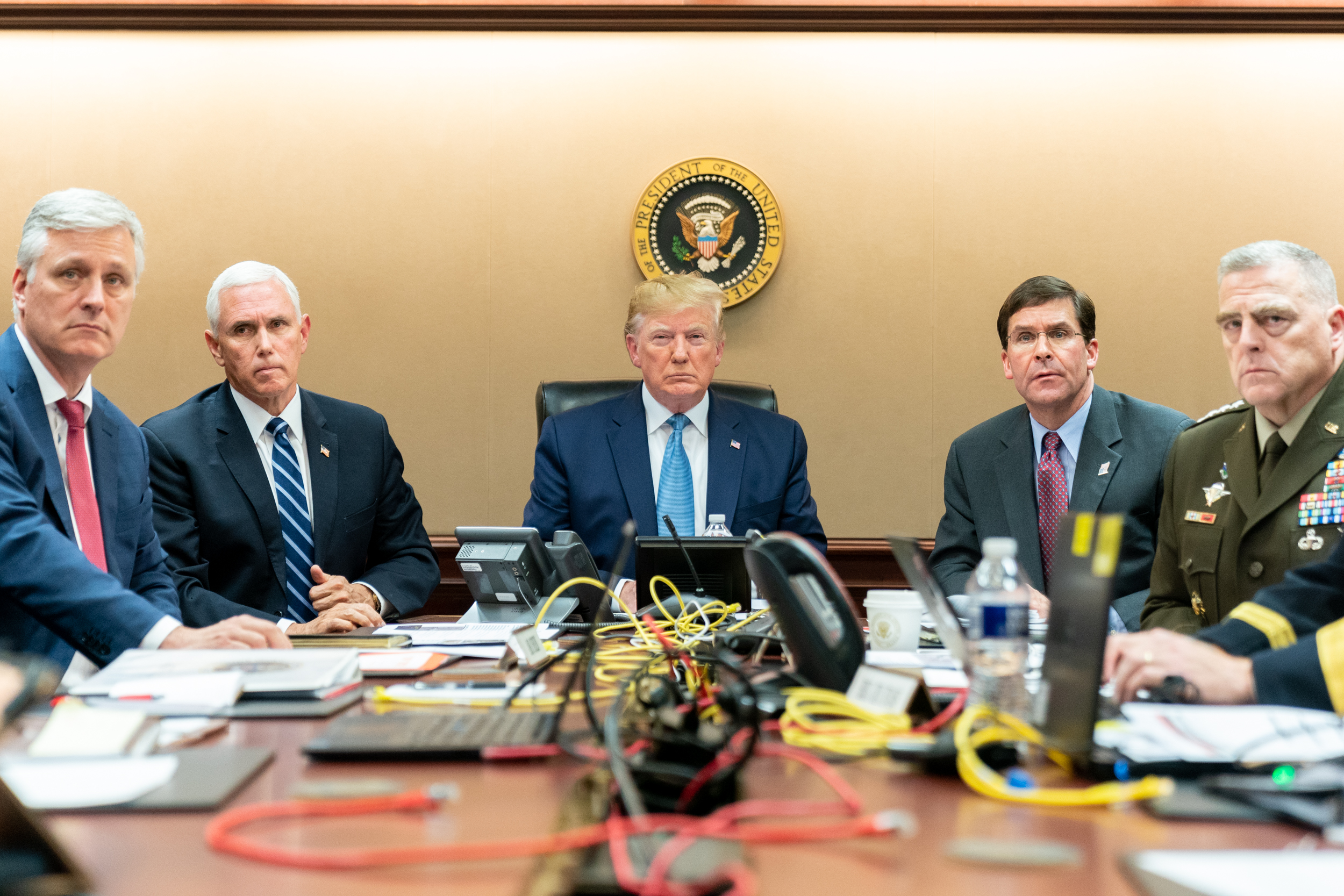 President Donald J. Trump is joined by Vice President Mike Pence, National Security Advisor Robert O’Brien, left; Secretary of Defense Mark Esper and Chairman of the Joint Chiefs of Staff U.S. Army General Mark A. Milley, right, Saturday, Oct. 26, 2019, in the Situation Room of the White House monitoring developments as U.S. Special Operations forces close in on notorious ISIS leader Abu Bakr al-Baghdadi’s compound in Syria with a mission to kill or capture the terrorist. (Official White House Photo by Shealah Craighead)